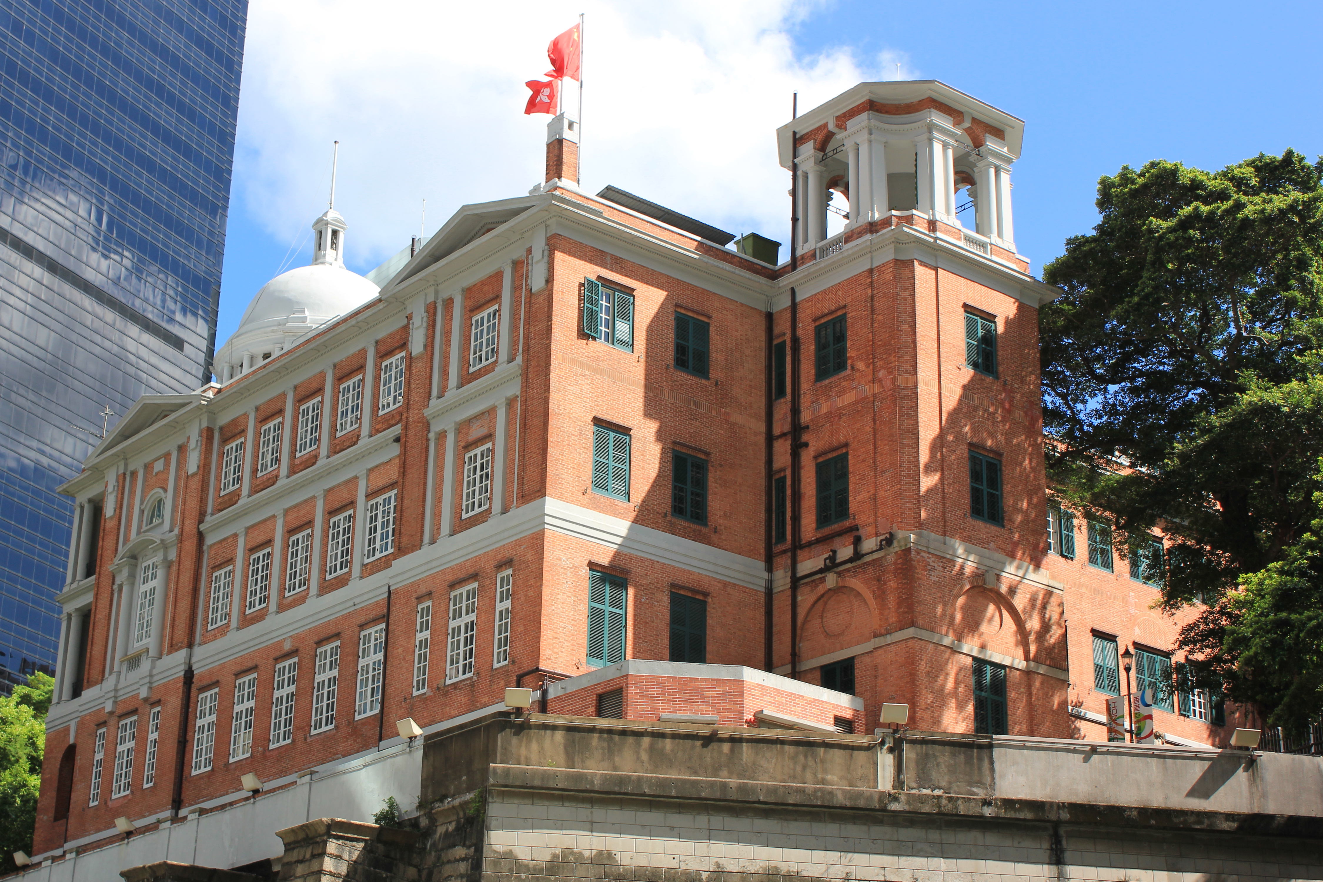 The Former French Mission Building, used as the Court of Final Appeal of Hong Kong at the date this photo was taken, with the National and Regional flag flying.